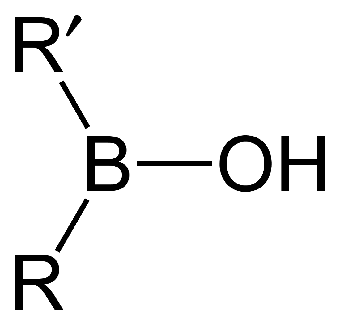 Structural formula of a general borinic acid